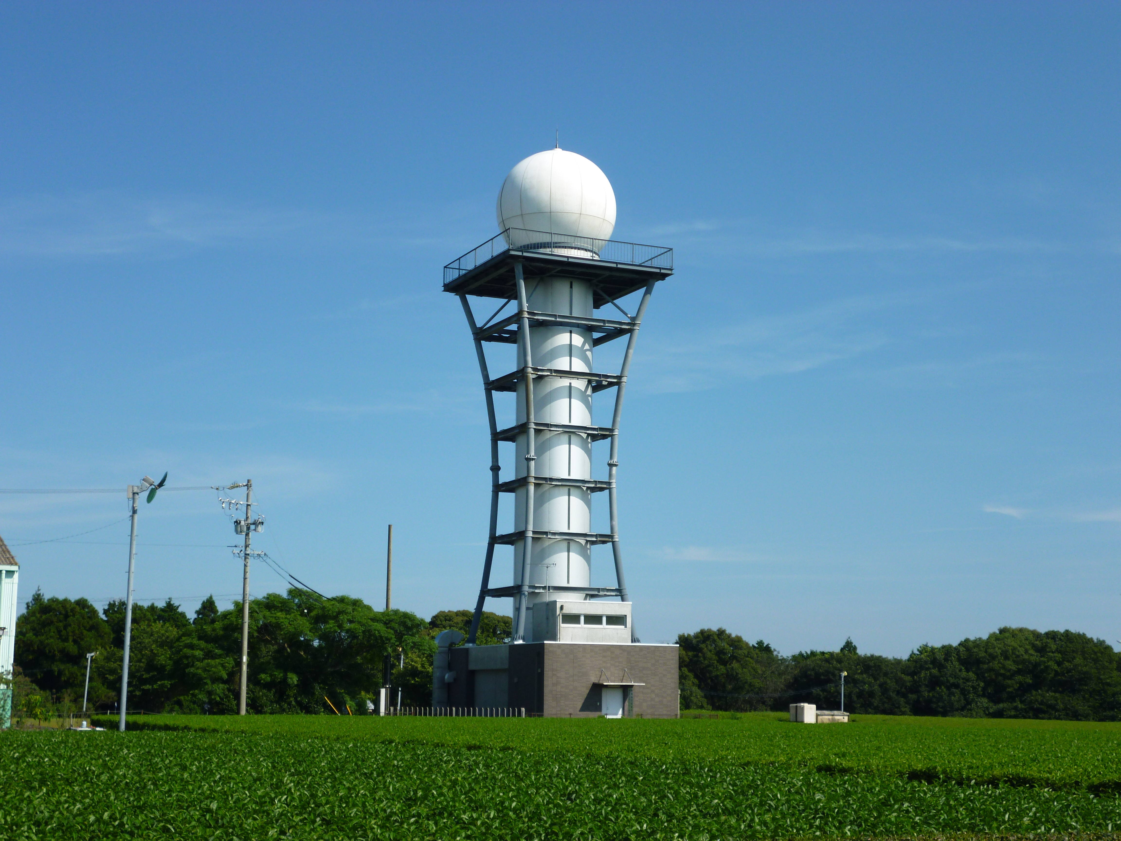 Makinohara Weather Radar in Kikugawa, Shizuoka, Japan.